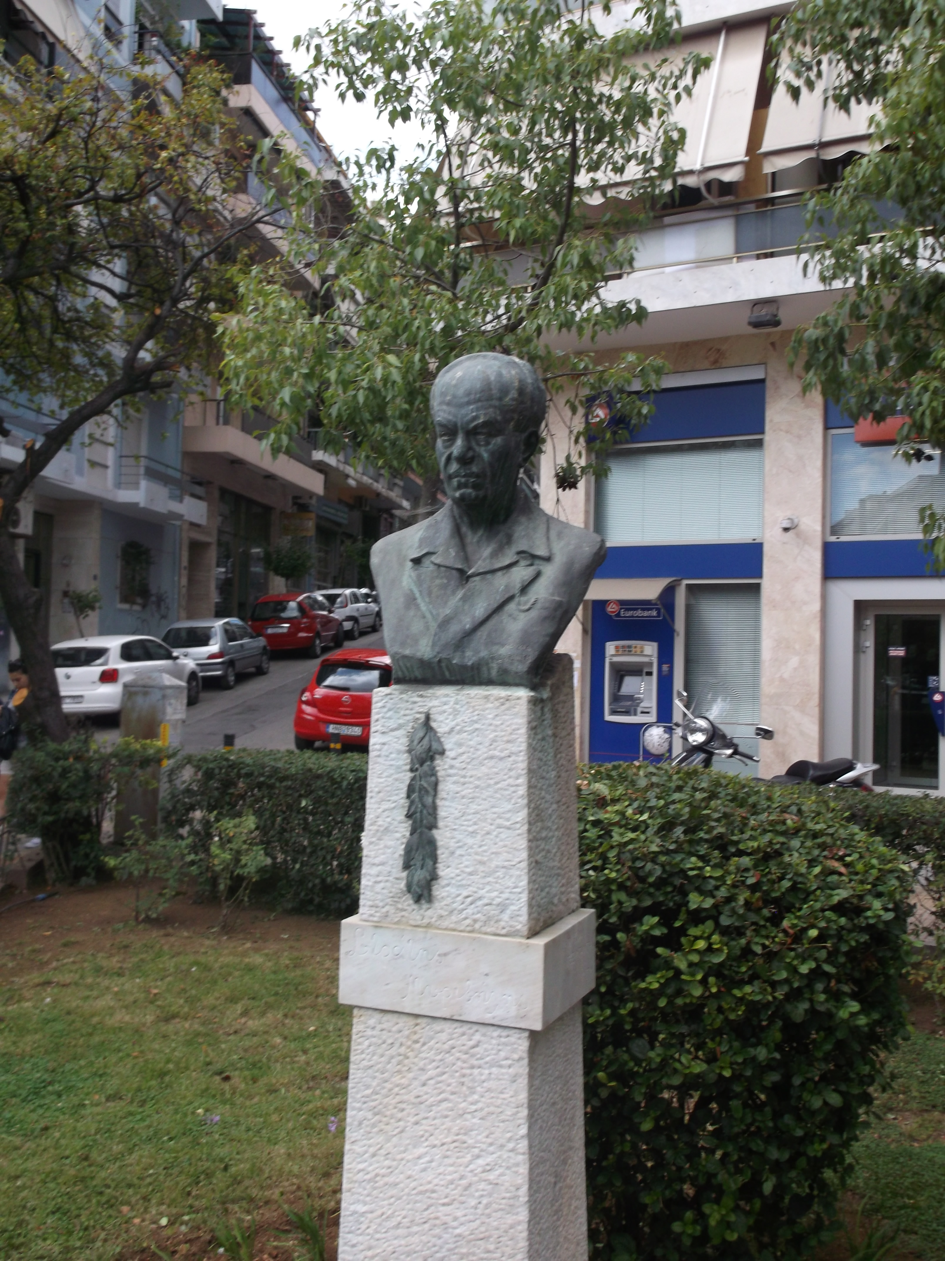 Bust of Stratis Mirivilis in Athens. Sculptor L.Georganti